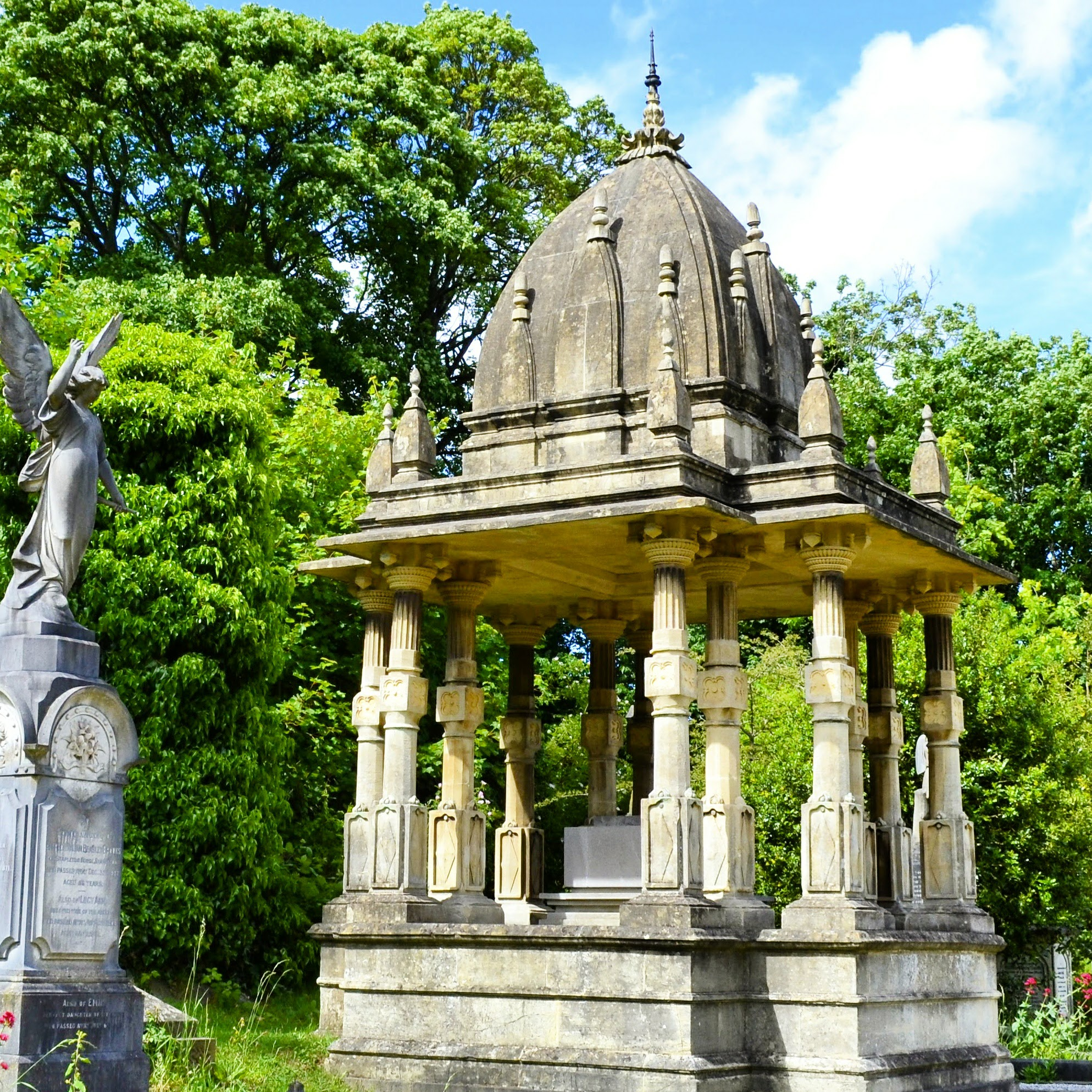 Rajah Rammohun Roy's tomb at Arnos Vale